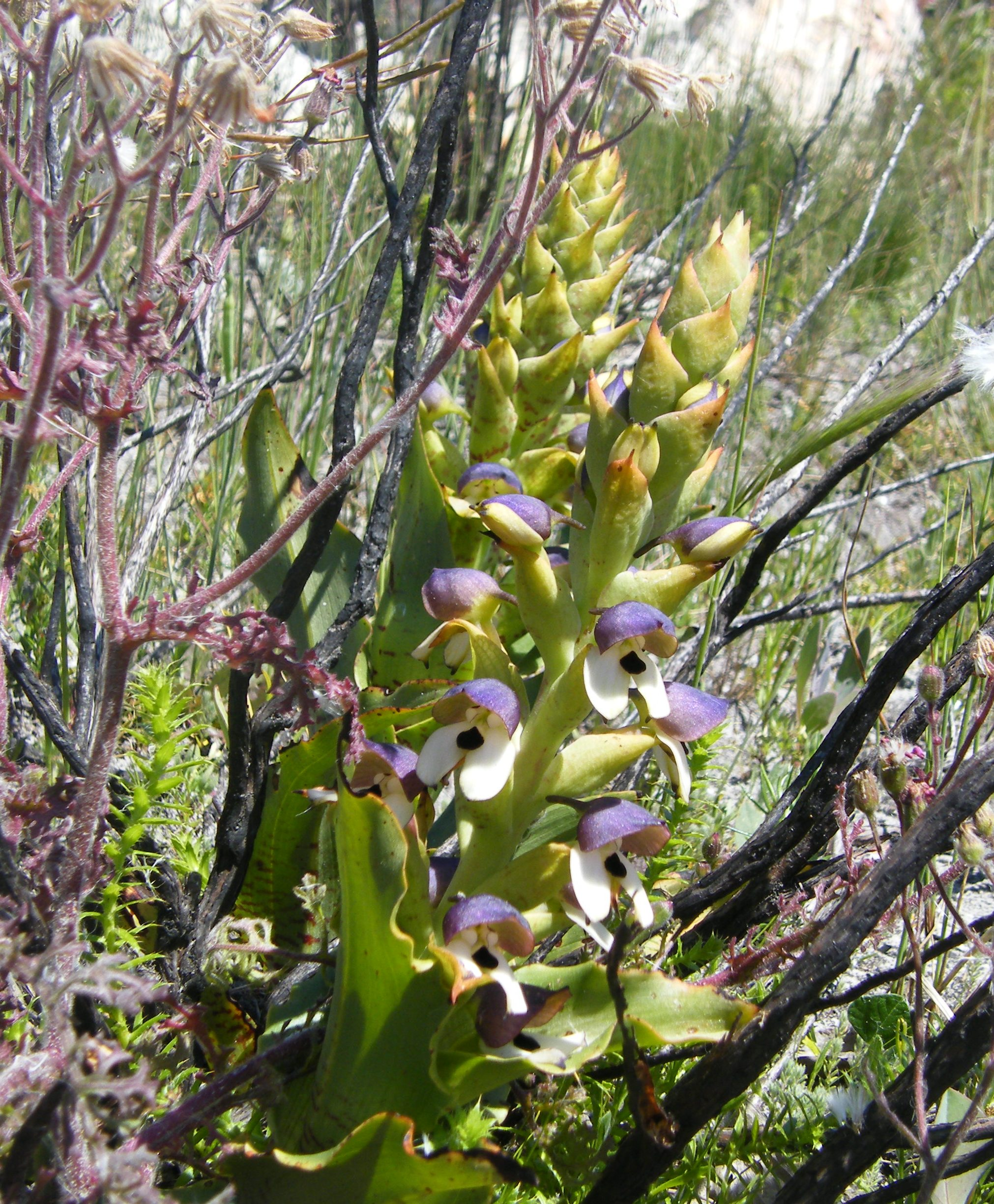 Golden Orchid